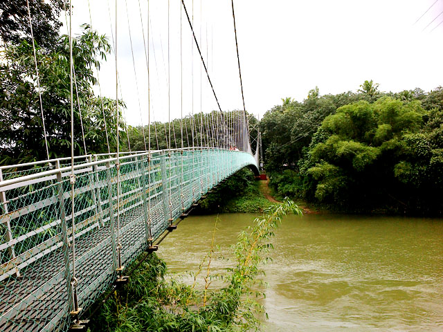 Hanging Bridge at Vaipur Mallappally